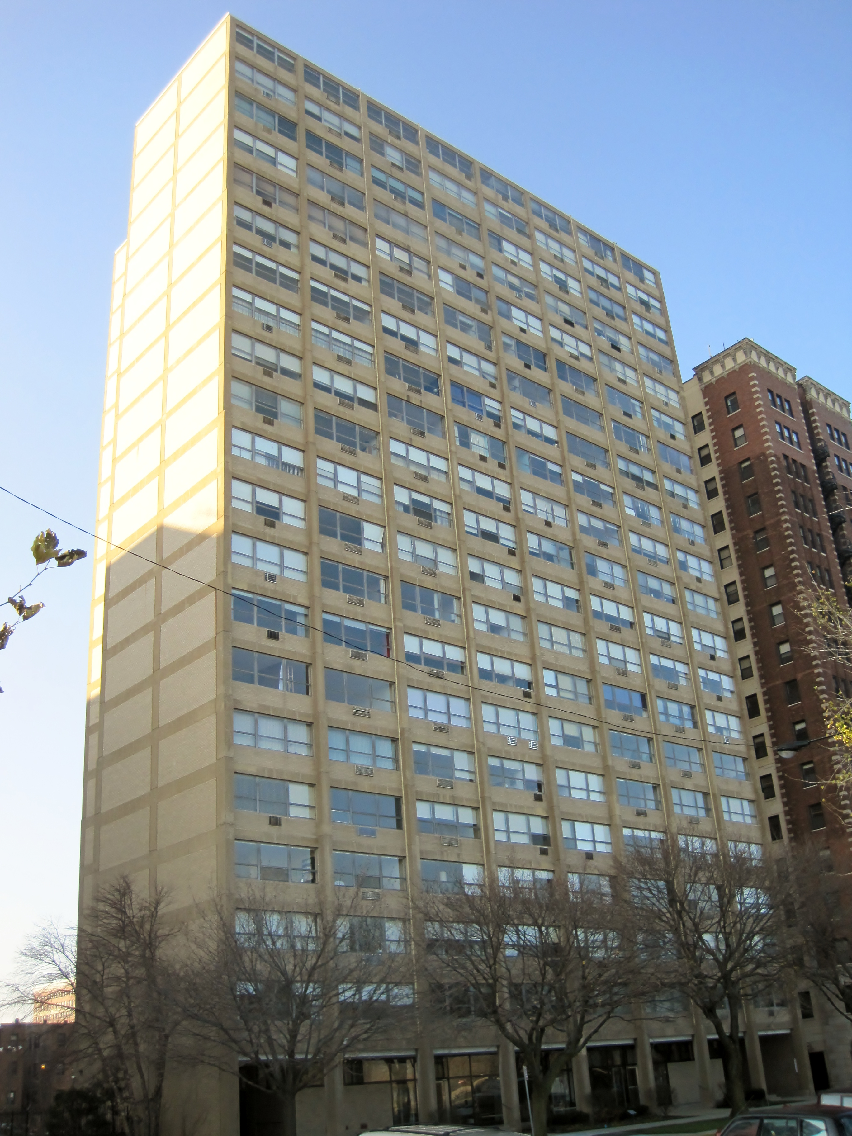 The Promontory Apartments in Chicago (1949). It was designed in 1949 by Ludwig Mies Van Der Rohe, and was the first International Style skyscraper in the world. It was the first high-rise structure for Mies, who would go on to become one of the most acclaimed skyscraper designers of all time. The apartments were a symbolic victory for Chicago, as the building was the first skyscraper since the Great Depression. A young architect names Charles B. Genther was originally slated to design the building, but his high praise for his mentor at the Illinois Institute of Technology convinced the developer to get Mies involved.